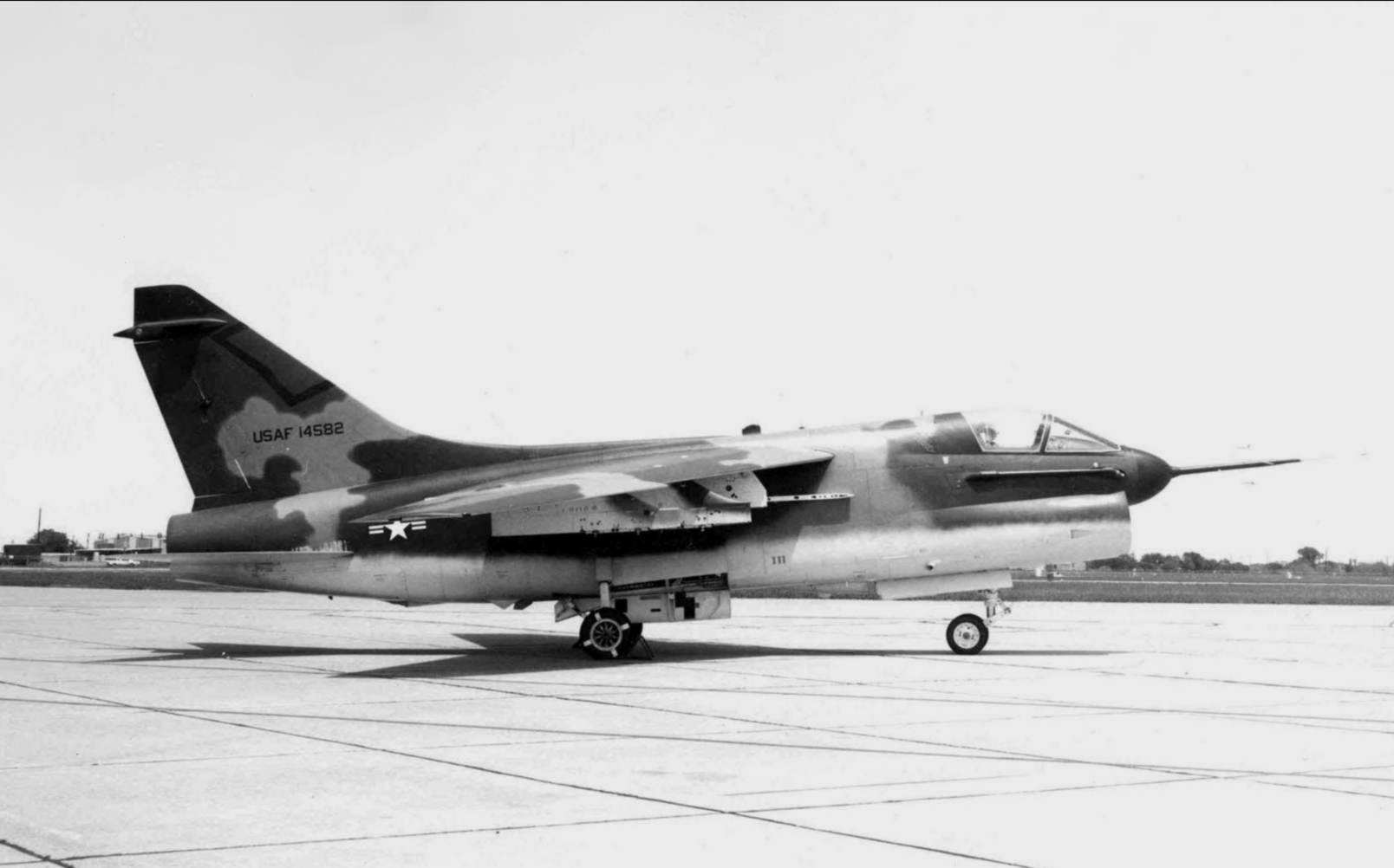 445th Flight Test Squadron YA-7D Corsair II 67-14582 Note the Navy-style refueling probe 1968: Aircraft delivered to 6510th Test Wing/6512th TS, Edwards AFB, CA (C/N 001) First Ling-Temco-Vought YA-7D Corsair II delivered to the USAF for testing First flight on 6 April 1968 Transferred to 412th Test Wing/445th Flight Test Squadron, 1 October 1969 Transferred to AMARC as AE0231 Sep 28, 1992 Sold for reclamation, June 2001